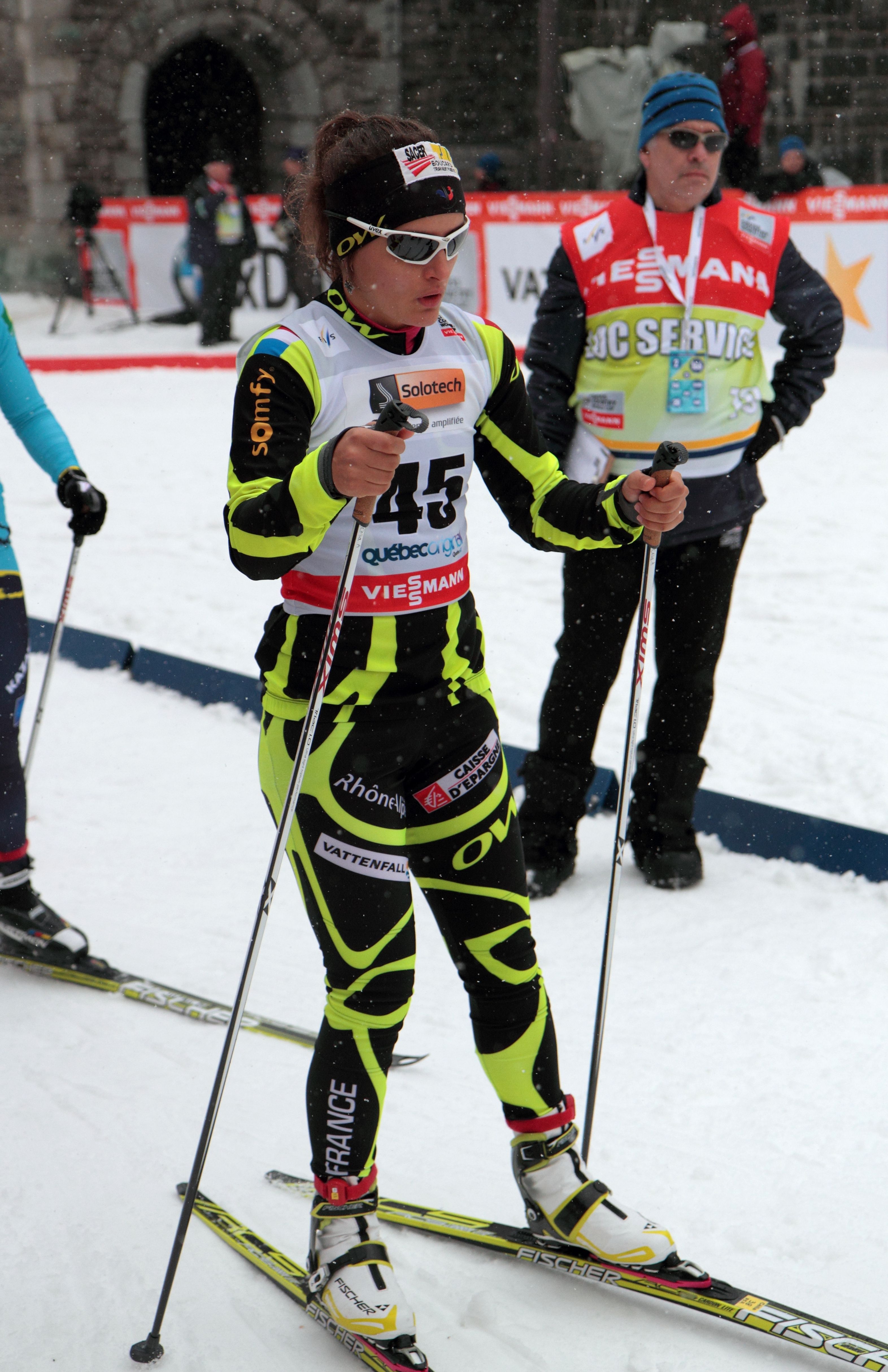 Celia Aymonier, FIS Cross-Country World Cup 2012, Quebec, Canada.